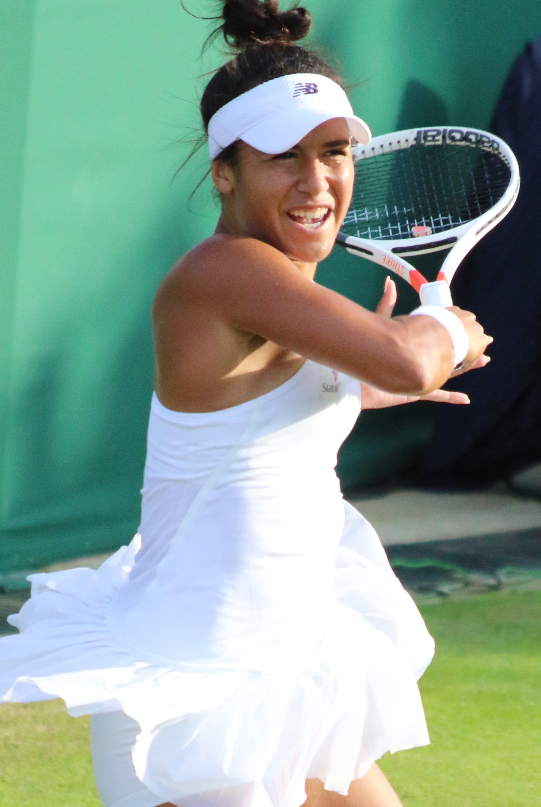 Watson WM17 (20)